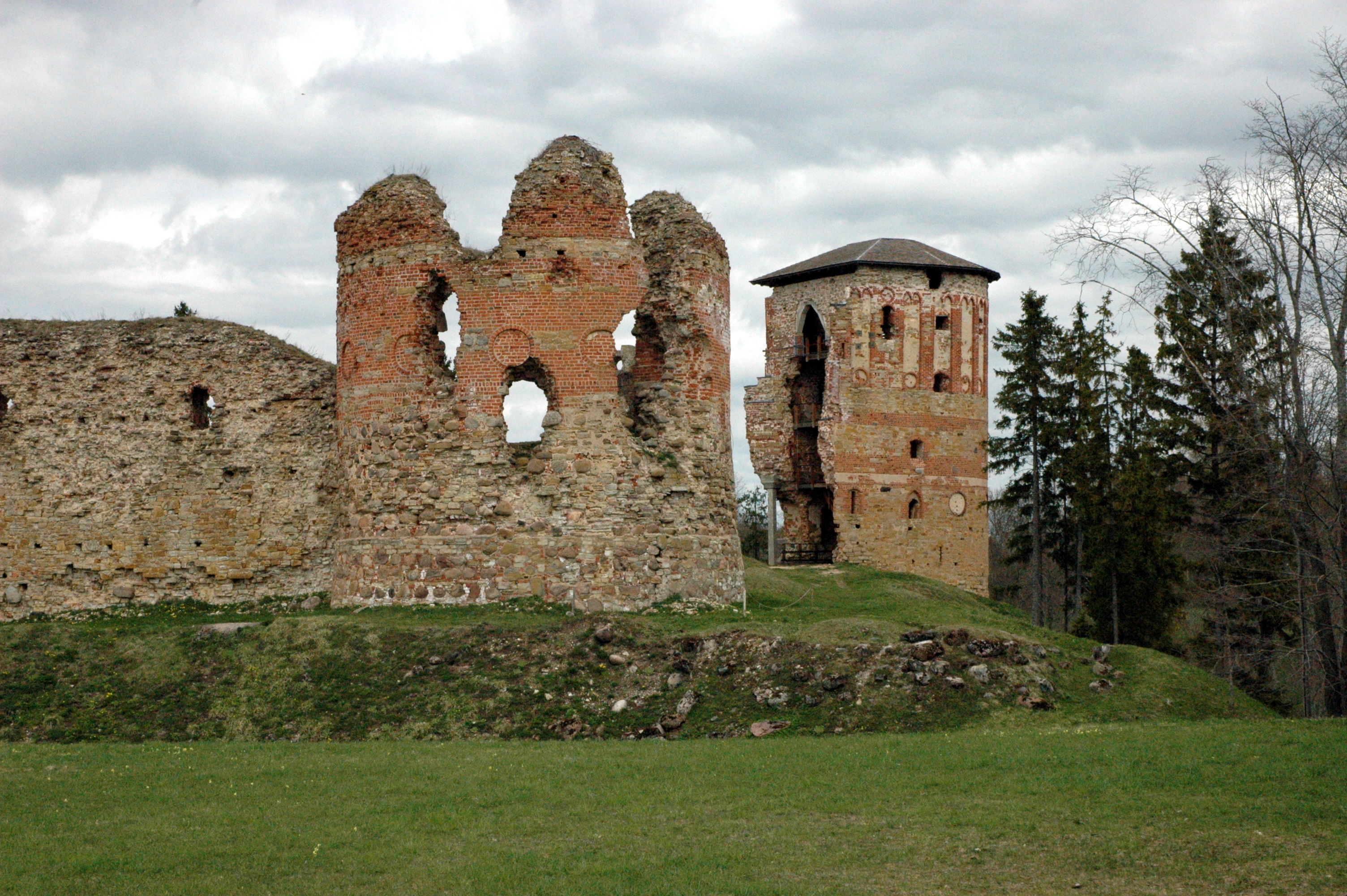 Vastseliina Castle, Estonia